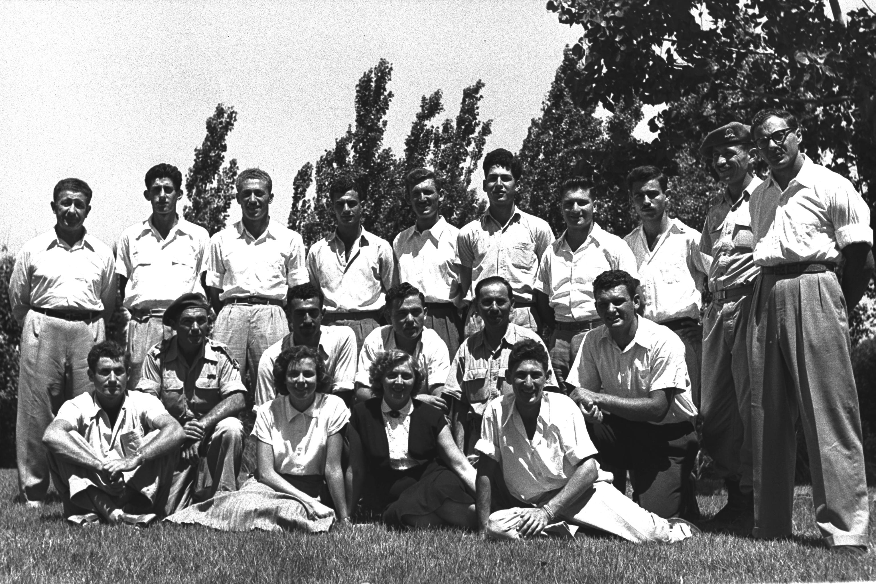 Original Description: THE ISRAELI OLYMPIC TEAM BEFORE THE DEPARTURE FOR HELSINKI.